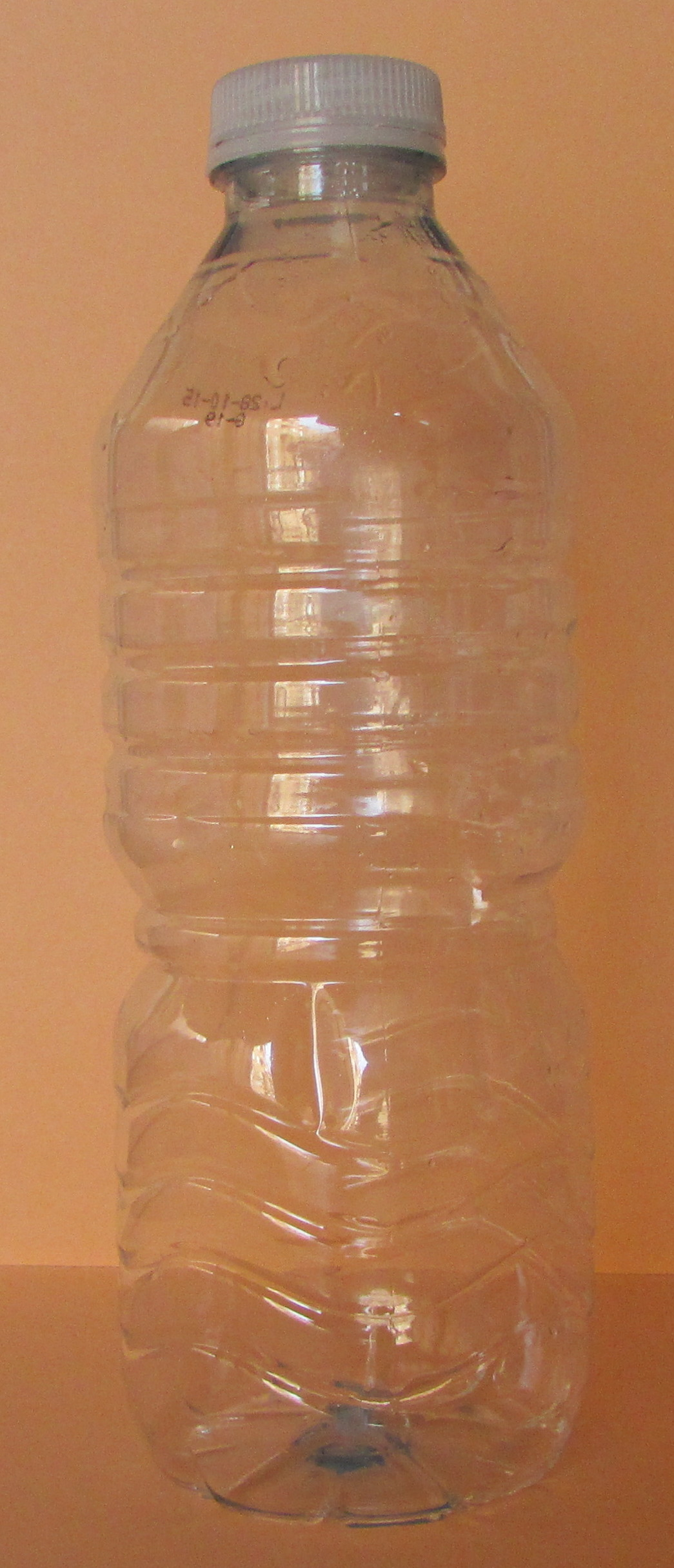 PET Bottle